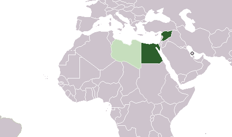 Federation of Arab Republics 1976: Union agreement between Egypt and Syria within the Federation - Libya de facto already retired from the project